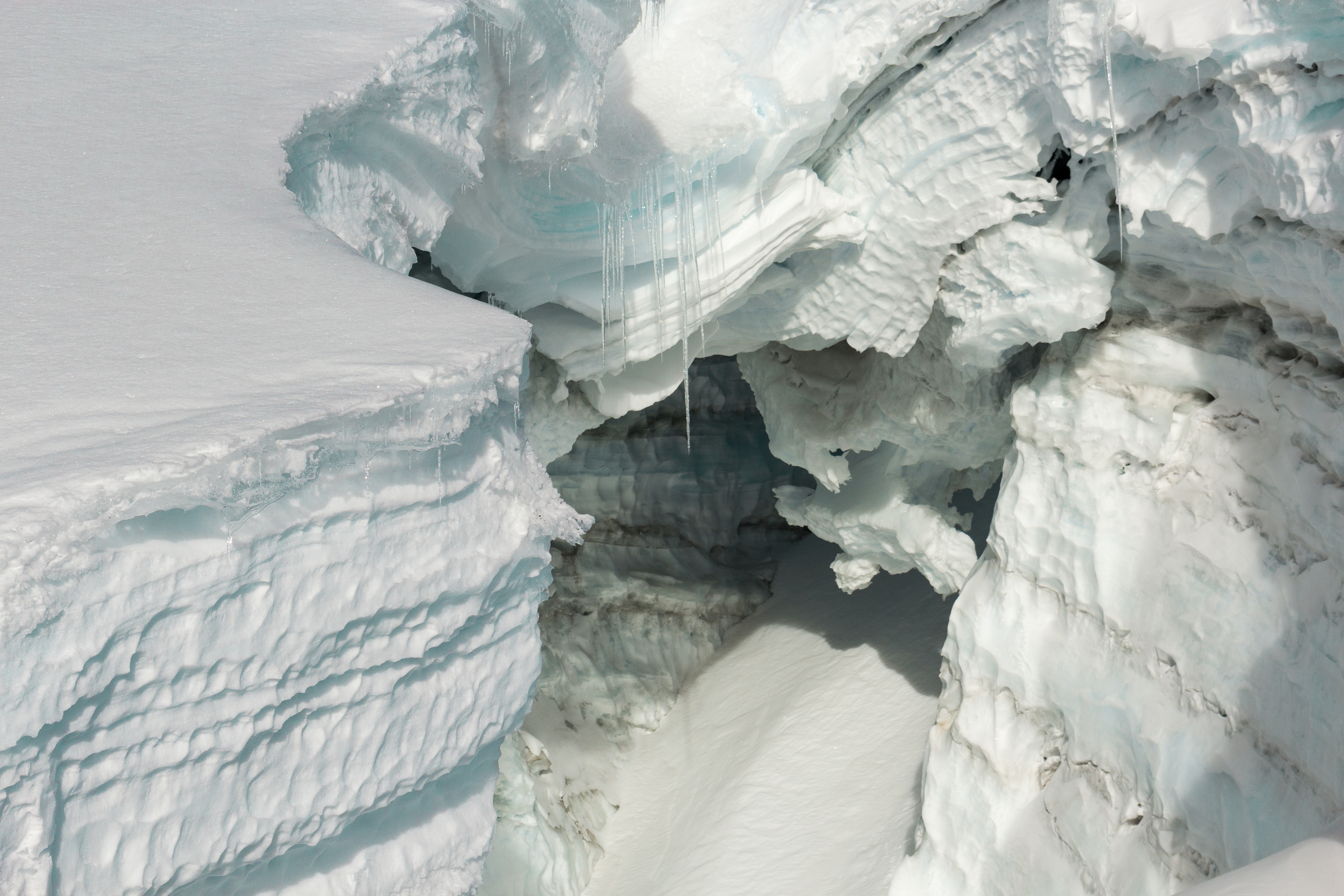 Mina de Oro Glacier at Huayna Potosi Mountain